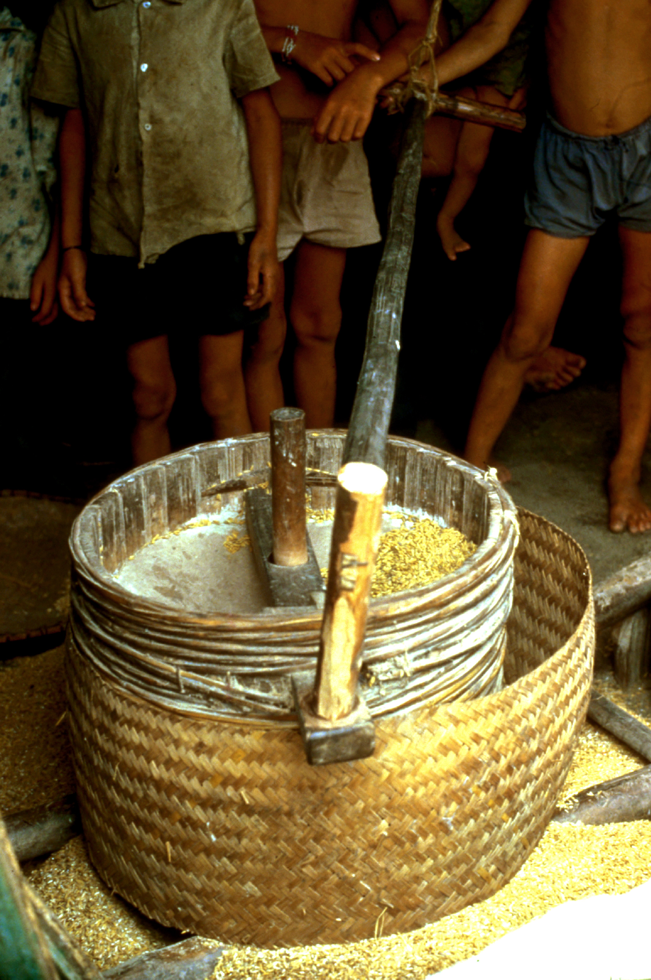 Manual rice mill from the Hanoi area in Northern Vietnam. Part of the image collection of the International Rice Research Institute .